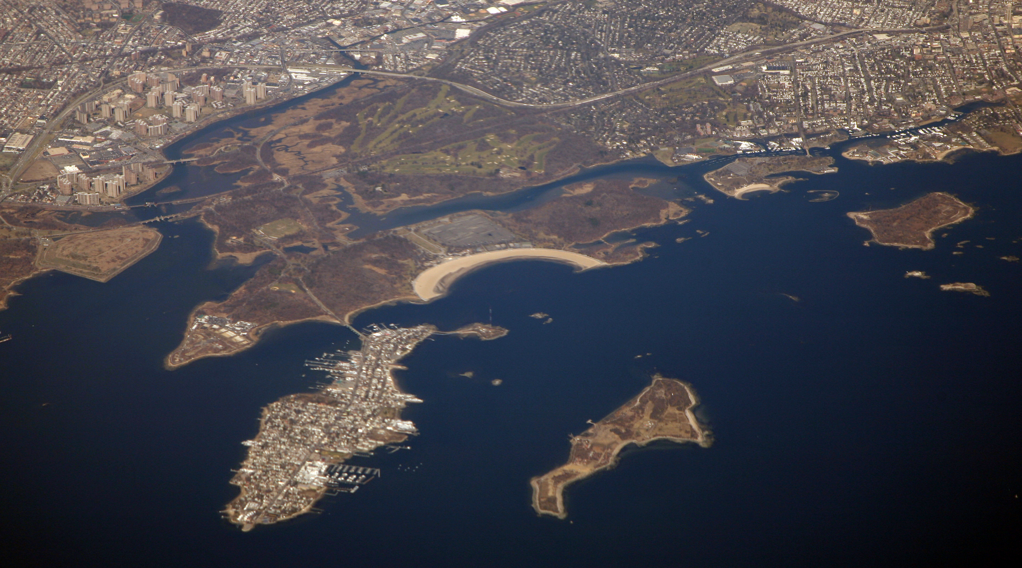 City Island and Hart Island, off Orchard Beach, Pelham Bay and Pelham Bay Park, Bronx, New York, are the largest of the Pelham Islands. Also featured are The Blauzes and Chimney Sweeps Islands. The small island between those two, on a thin causeway off the north (right) end of City Island, is High Island, and the home of one tower radiating the signals of two of New York's original landmark 50,000-watt "clear channel" radio stations: WFAN/660 and WCBS/880, both now owned by CBS. WFAN was originally WEAF (broadcasting from across Long Island Sound in Bellmore. WCBS was originally WABC, and radiated from a tower on Columbia Island, off this shot to the right, and before that from Wayne, New Jersey. The north end of Hart Island is New York's potter's field: where the city has buried, and continues to bury (by prison labor) its unclaimed dead. It is the largest tax-funded cemetery in the world, with more than 800,000 corpses. Among other purposes, Hart Island has served as: A prison workhouse for delinquent boys, a women’s insane asylum, an isolation zone during the yellow fever epidemic, an old men’s home, a tuberculosis hospital, and a reformatory. In this respect it has been little different than countless other islands off the shores of cities such as San Francisco and Boston.